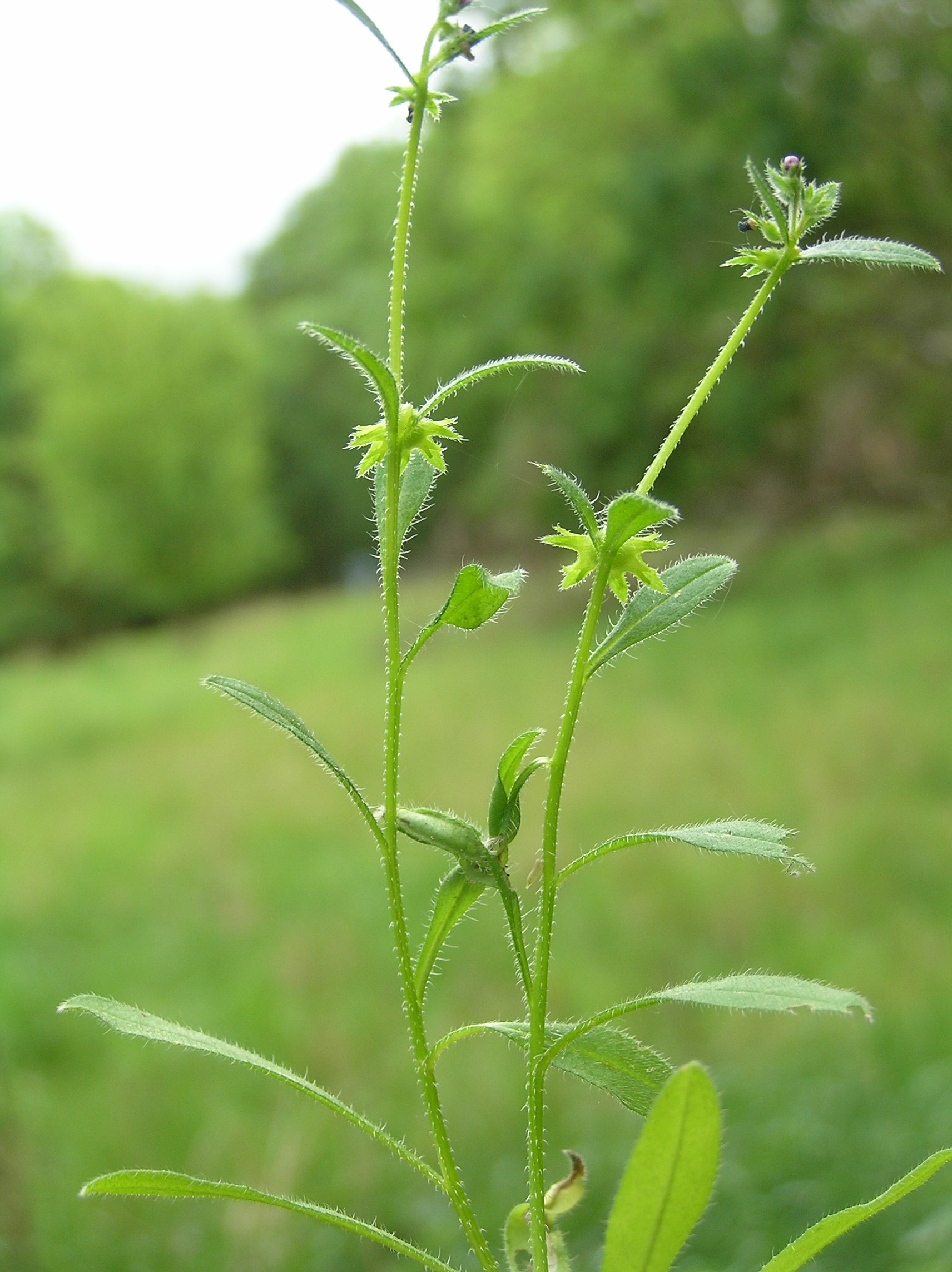 Asperugo procumbens, Brno-Chrlice, Southern Moravia, Czech Republic